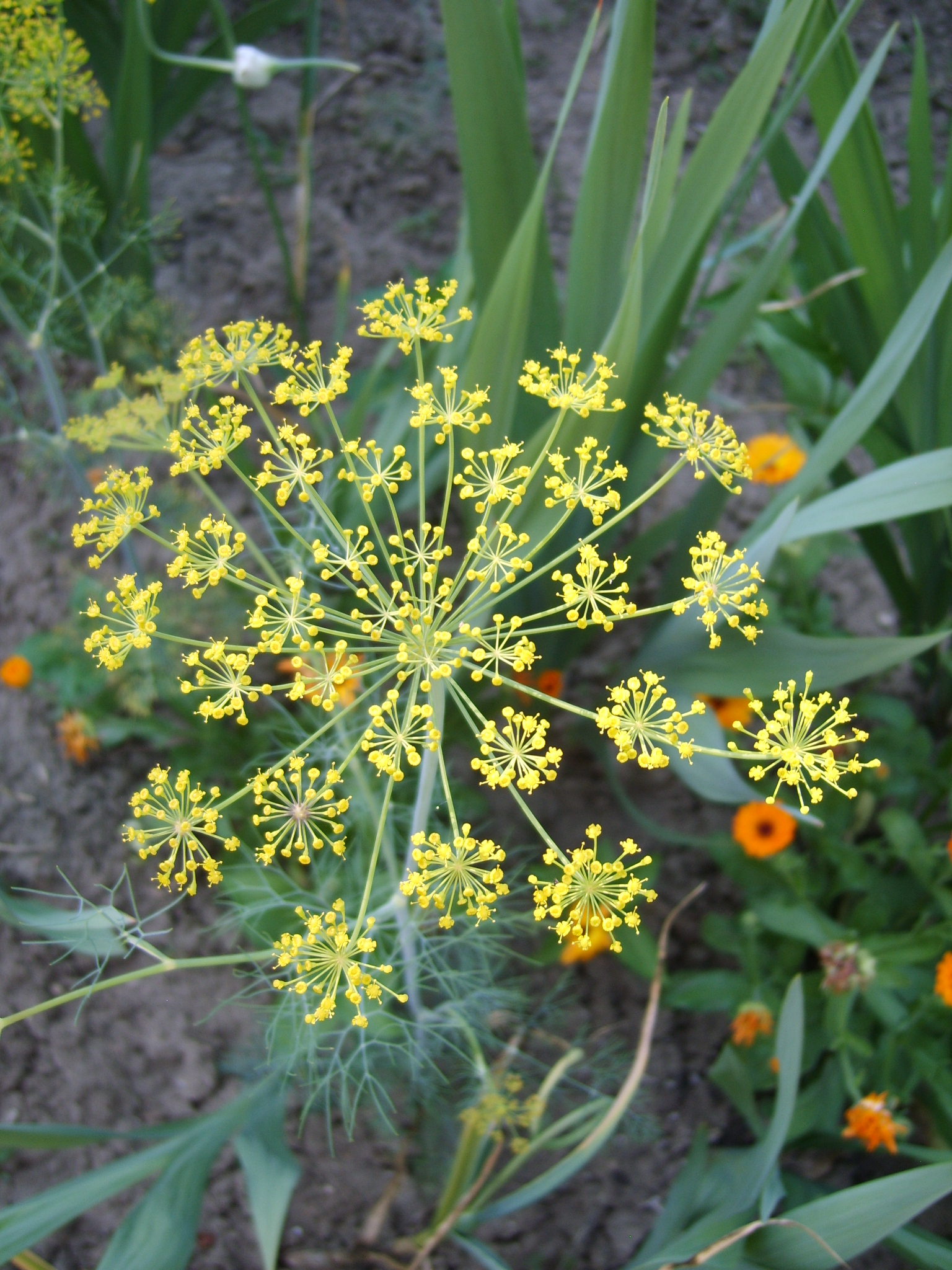 dill